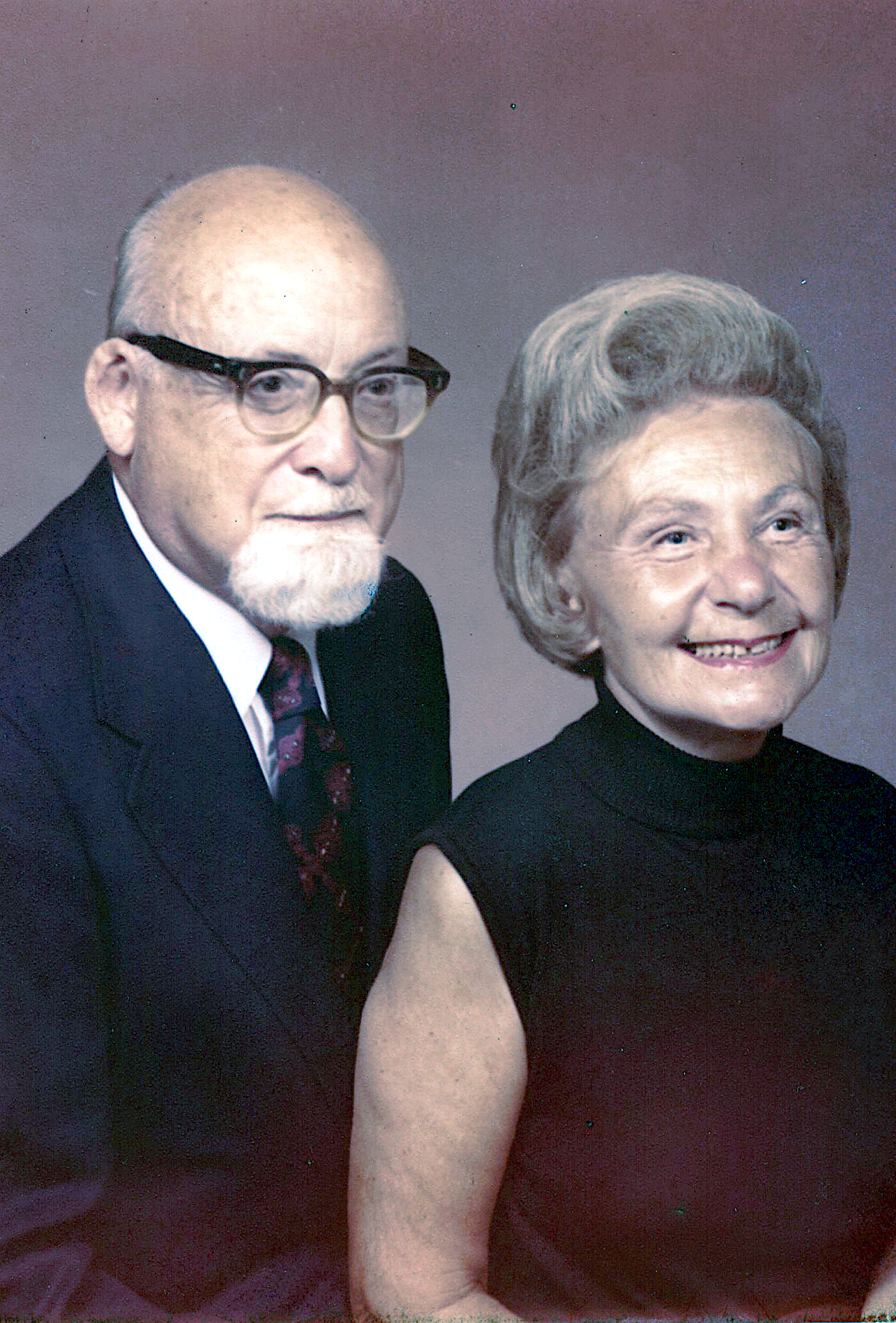 Eric and Johanna Reissner, ca 1970